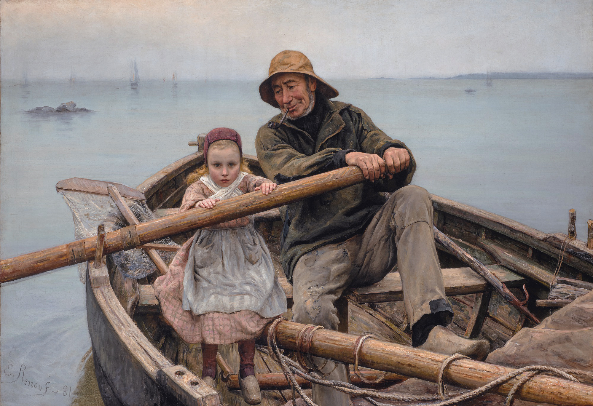 Un coup de main (The helping hand) oil on canvas 156.8 x 224.8 cm signed b.l.: E. Renouf. 81